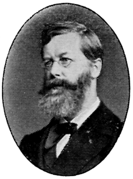 Image scanned from the book "Svenskt Porträttgalleri XX - Arkitekter, Bildhuggare, Målare m.fl. " ("Swedish Portrait Gallery XX - Architects, Sculptors, Painters, ") published 1901